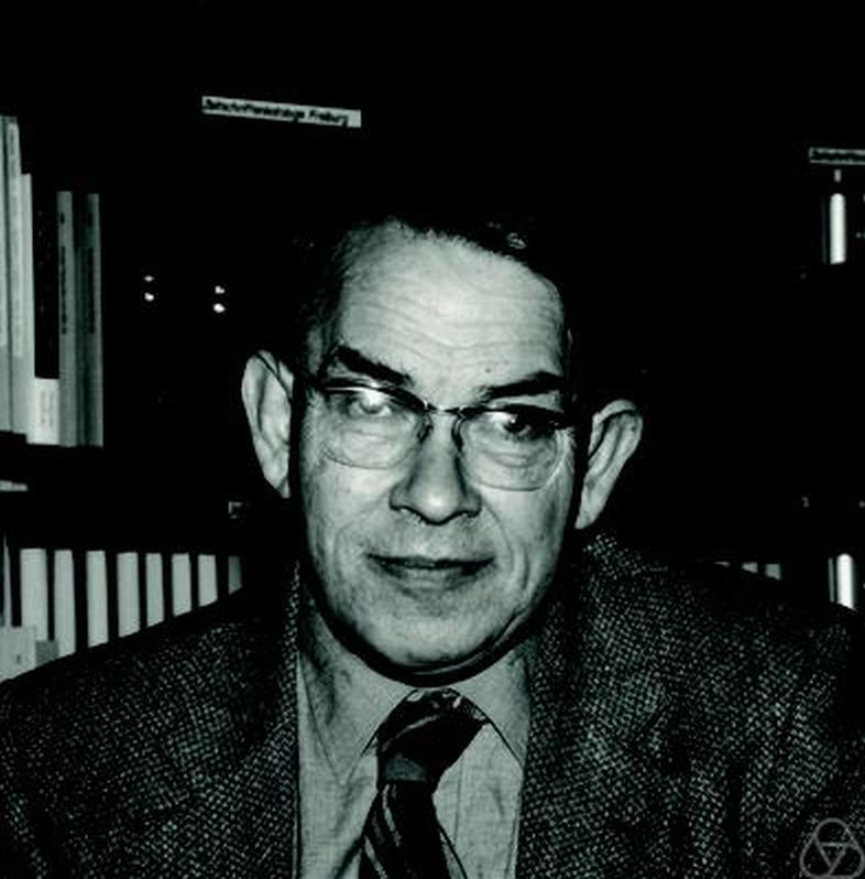 Walter Kurt Hayman, Oberwolfach 1988